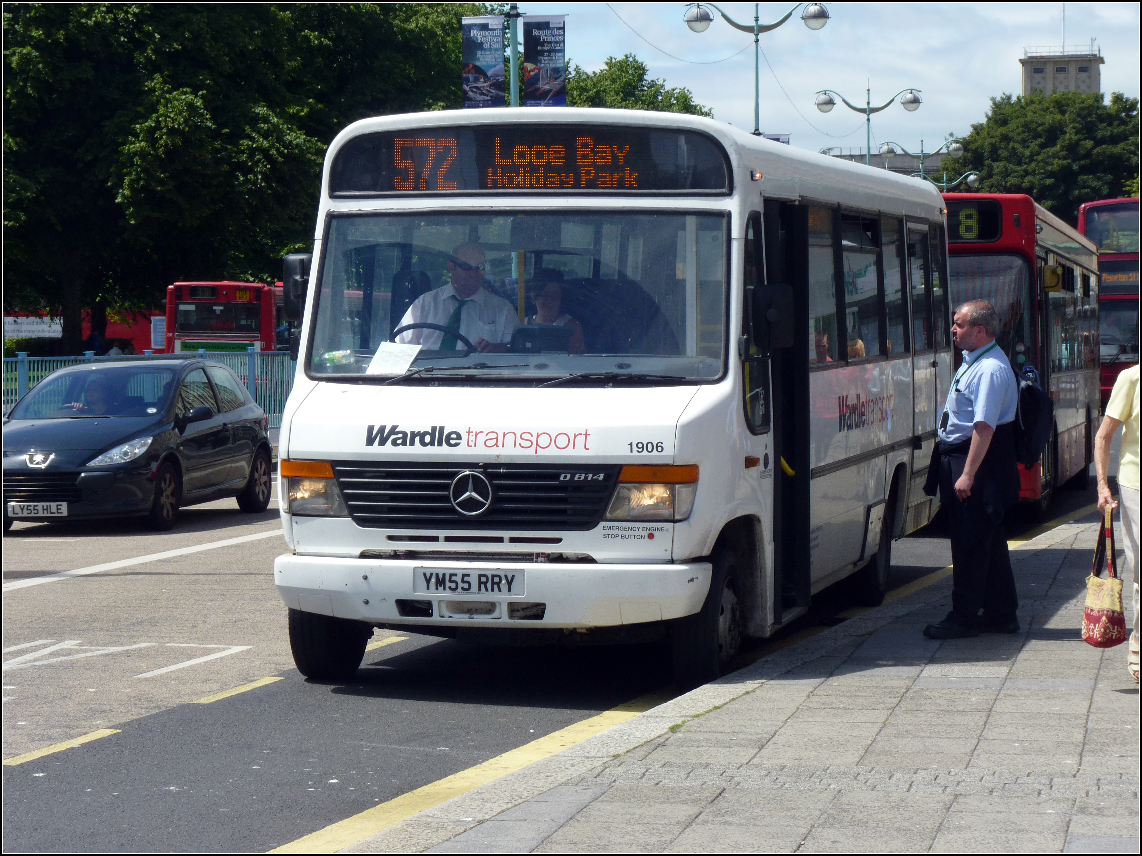 on loan to Western Greyhound 29 June 2013